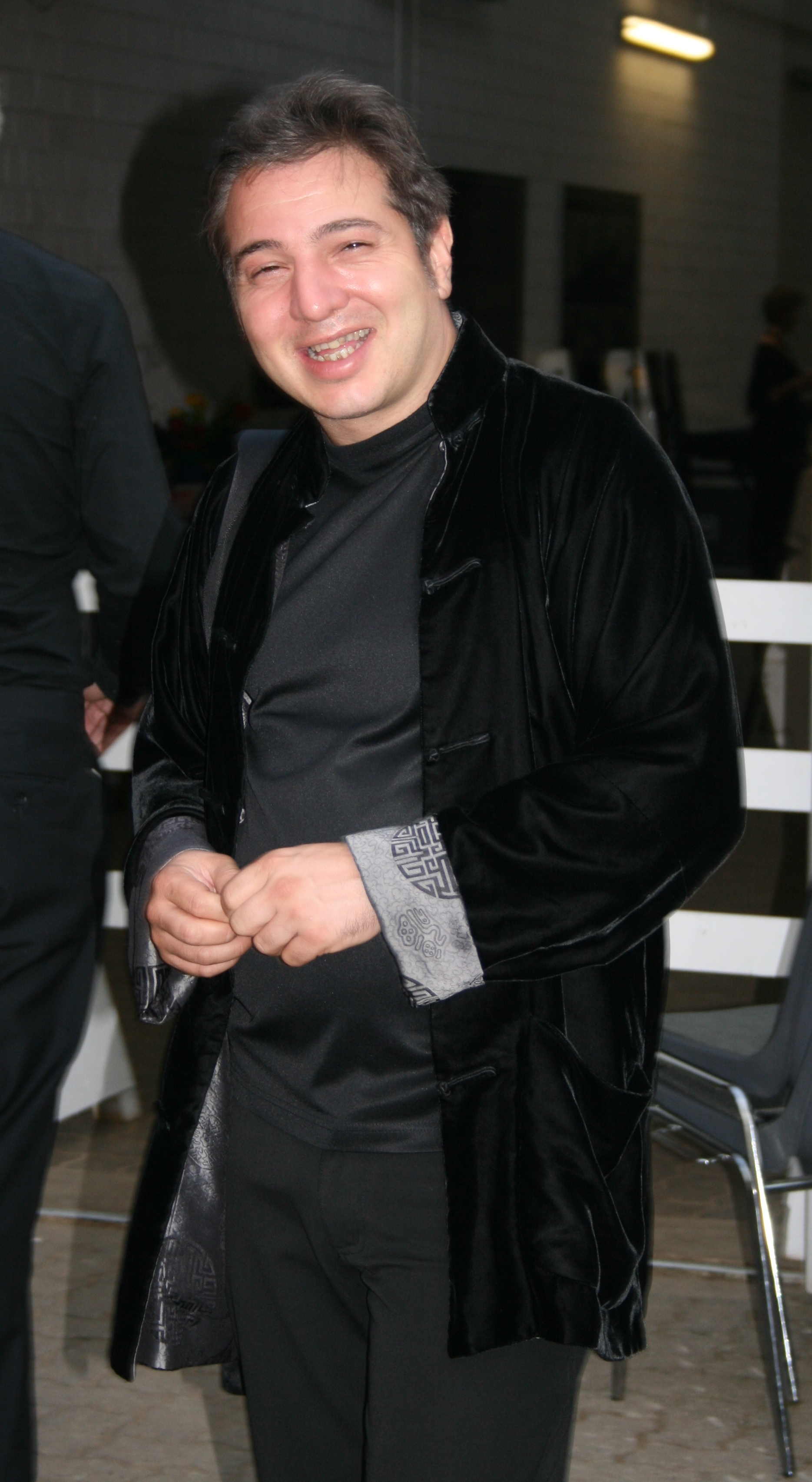 The pianist and composer Fazıl Say after a concert in Elmshorn during the Schleswig-Holstein Musik Festival